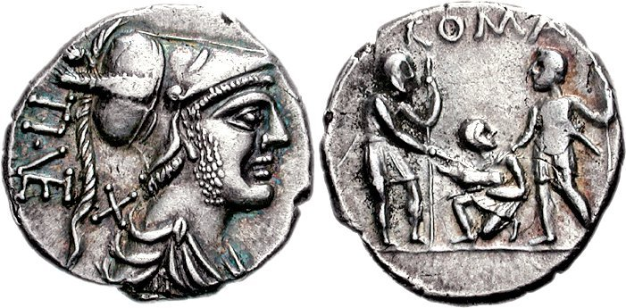 Ti. Veturius. 137 BC. AR Denarius (4.01 g, 10h). Rome mint. Helmeted and draped bust of Mars right; mark of value behind / Oath-taking scene: Youth kneeling left, looking right between two soldiers, each of whom holds a spear and touches with his sword a pig held by the youth. Crawford 234/1; Sydenham 527; Veturia 1. EF, attractive gray toning with blue and gold iridescence, traces of deposits on reverse. Well struck for this issue.